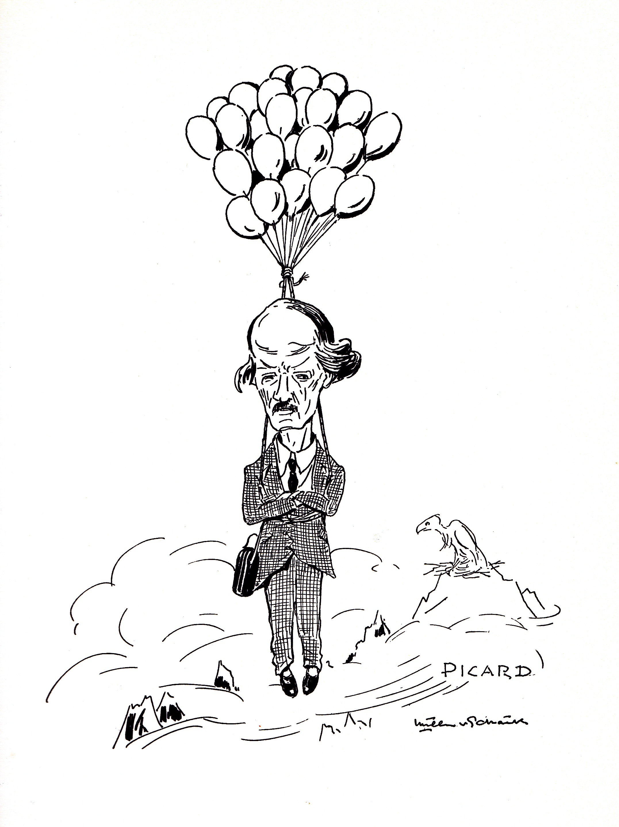 Auguste Piccard. (Text shows "Picard" [sic]) Sketch drawn by Willem van Schaik (1876-1938)